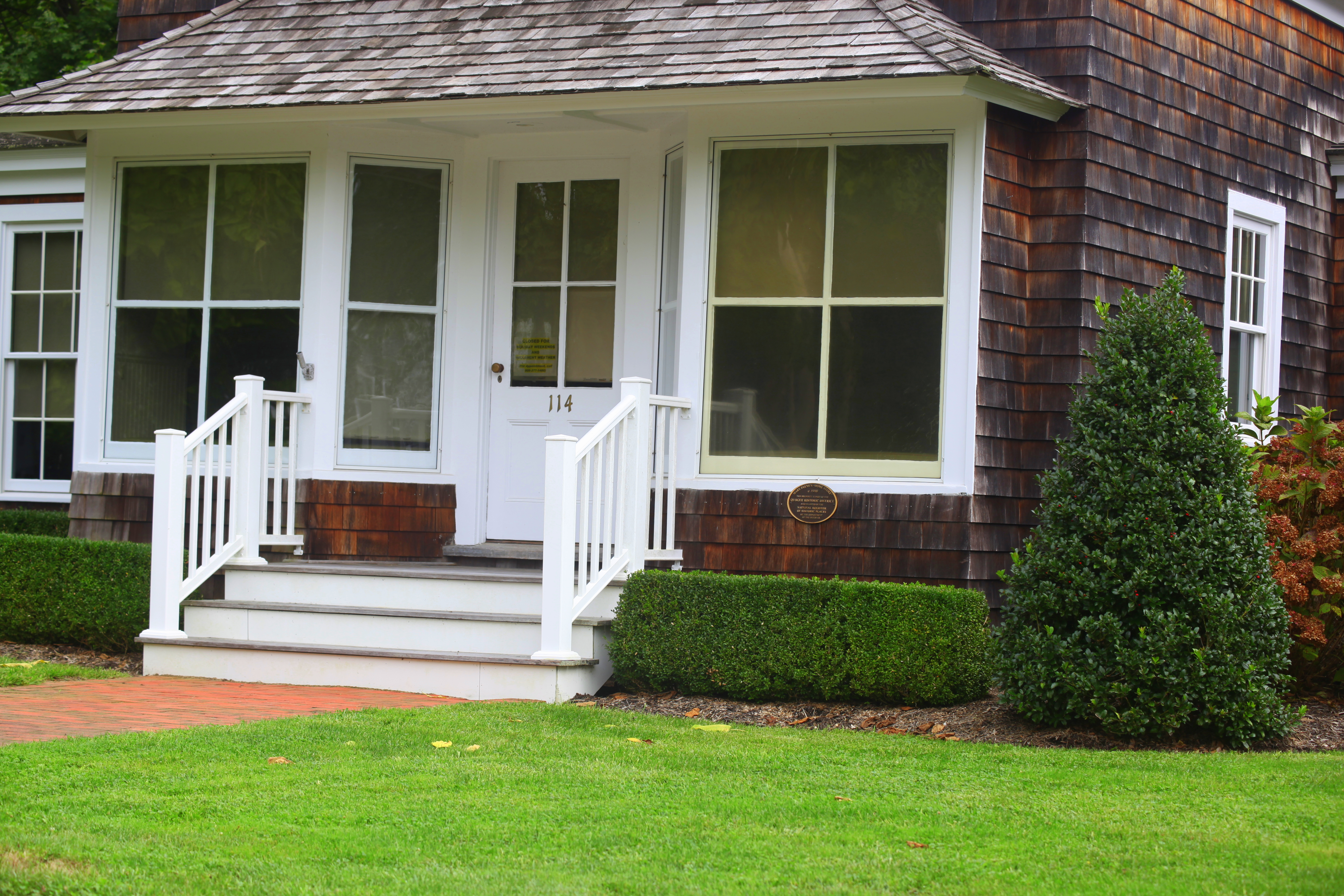 Mary Paynes Home Store, Quogue NRHP Added to the State Register in December 2015 and National Register on February 2, 2016 District